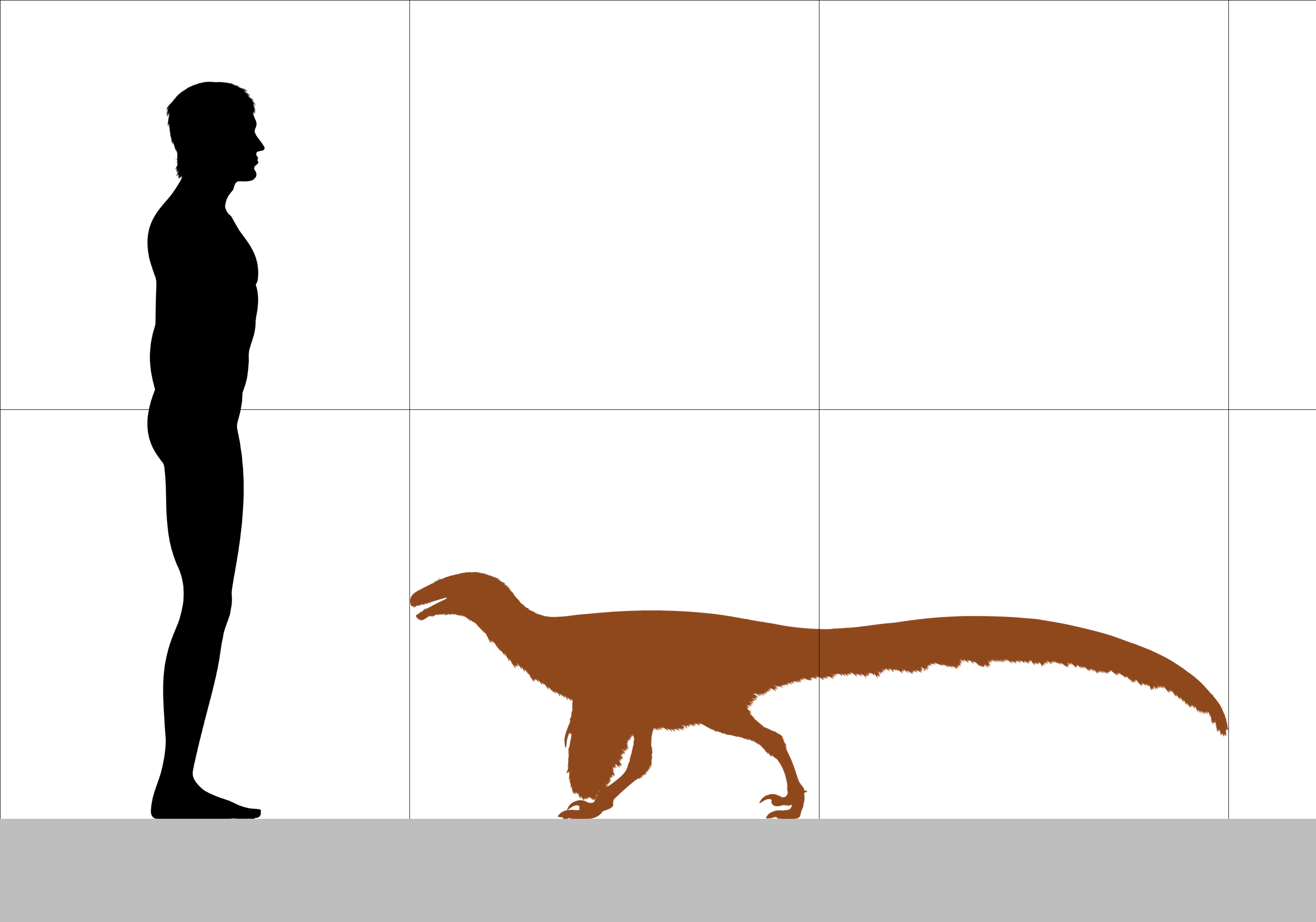 Ornitholestes size compared to a 1.8 m tall man. Size estimated by Gregory S. Paul in 2016: 2 m (6.6 ft)}.[1]